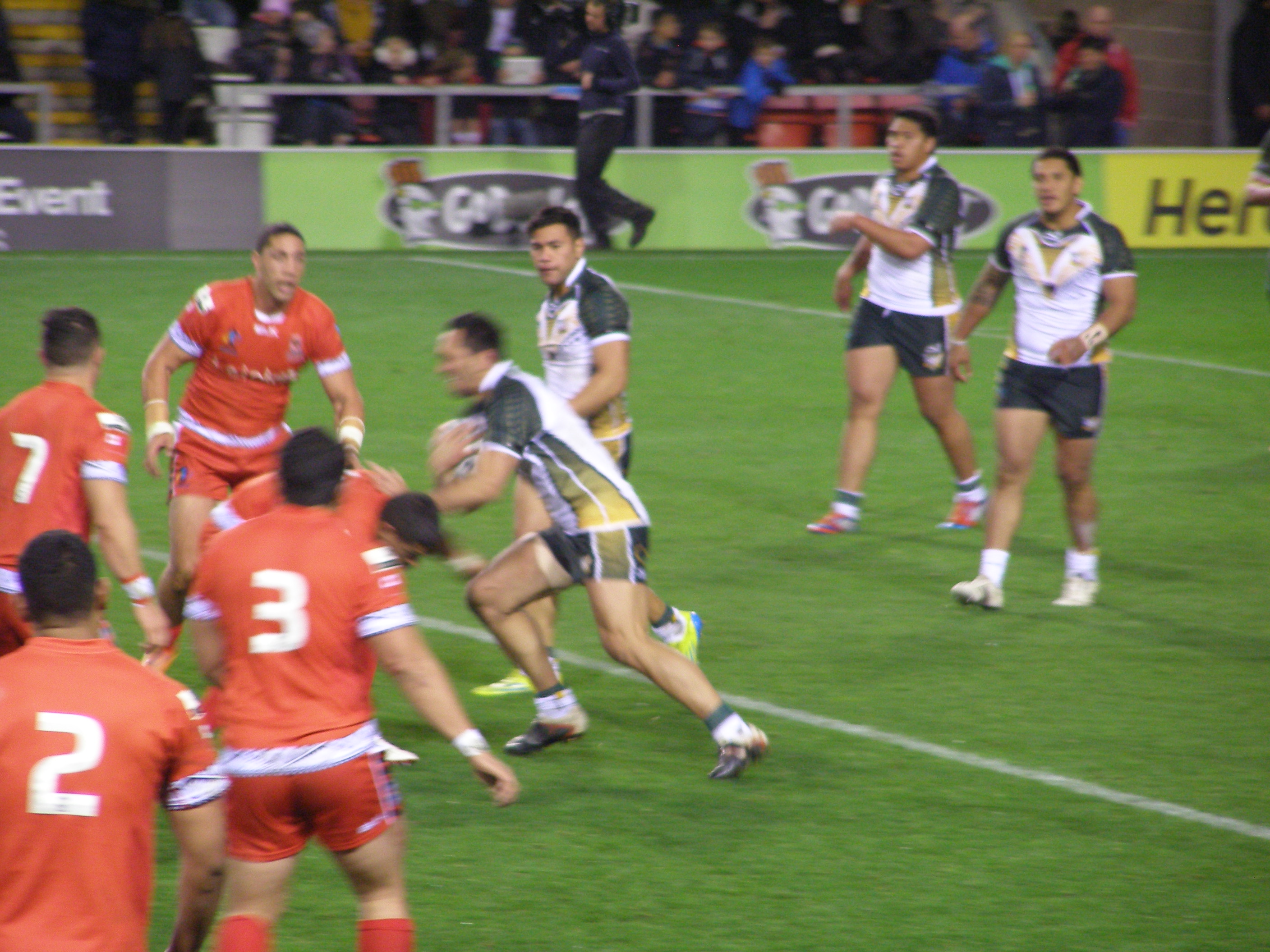 2013 Rugby League World Cup match between Tonga and Cook Island at Leigh Sports Village in Leigh.